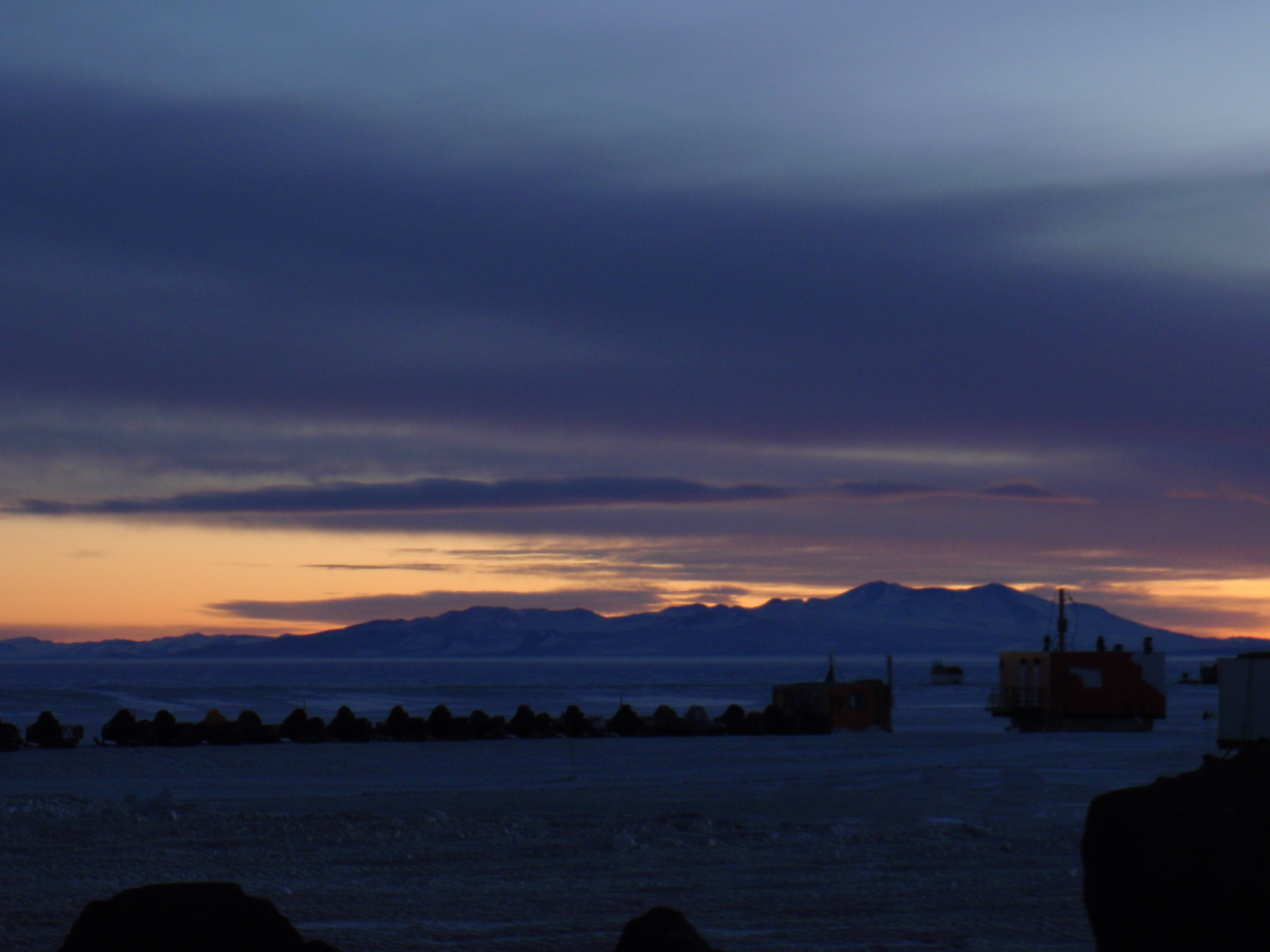 Black Island and Skidoos at Sunset